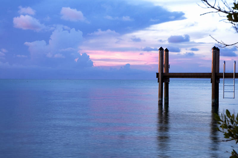 A pier at dusk near Marathon in the Florida Keys.